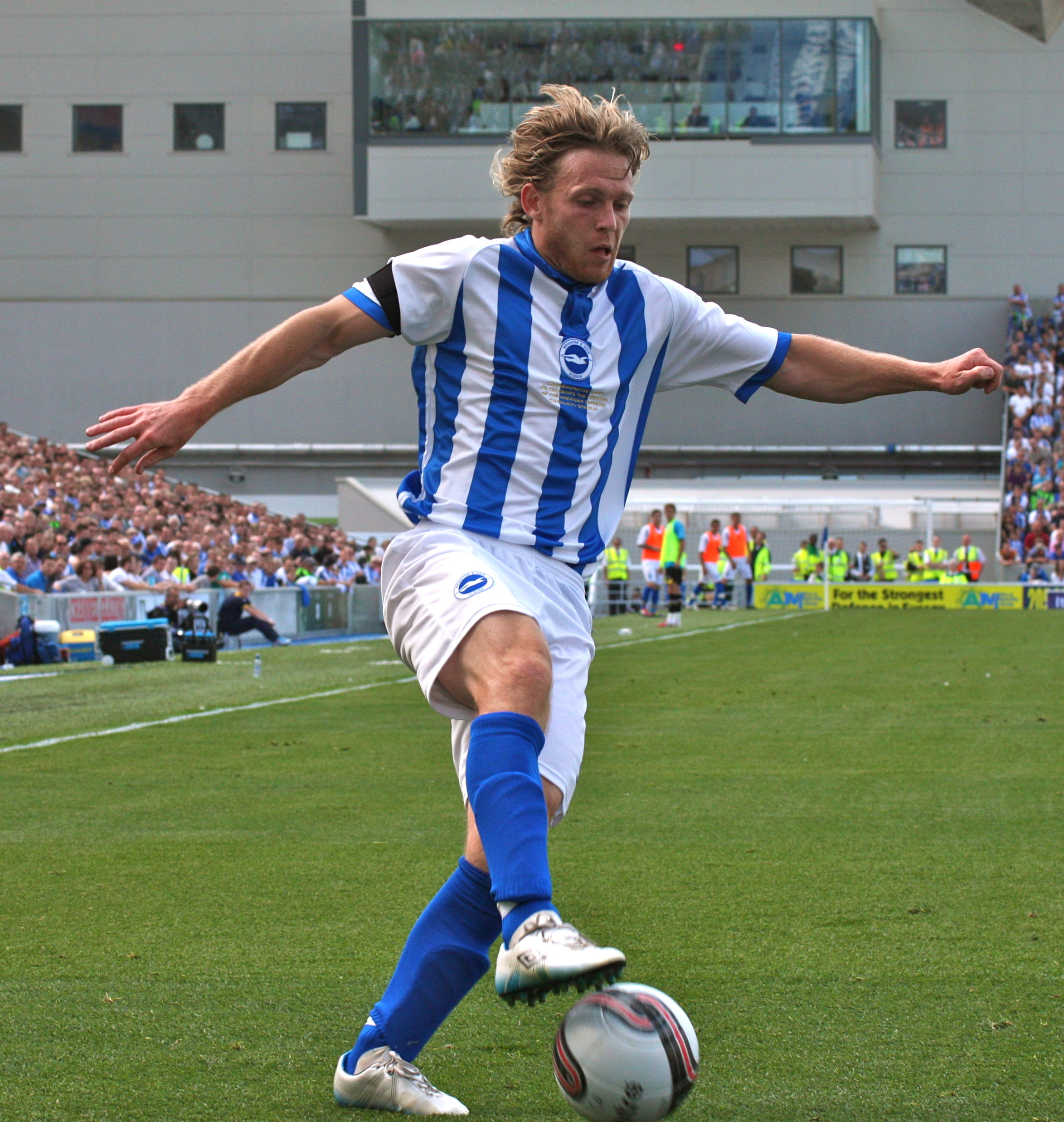 Craig Mackail-Smith, Brighton v Spurs Amex Opening 30/7/11